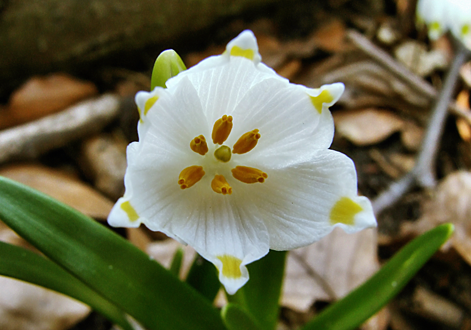 The blossom of a Spring Snowflake in the Polish nature reserve Śnieżycowy Jar.